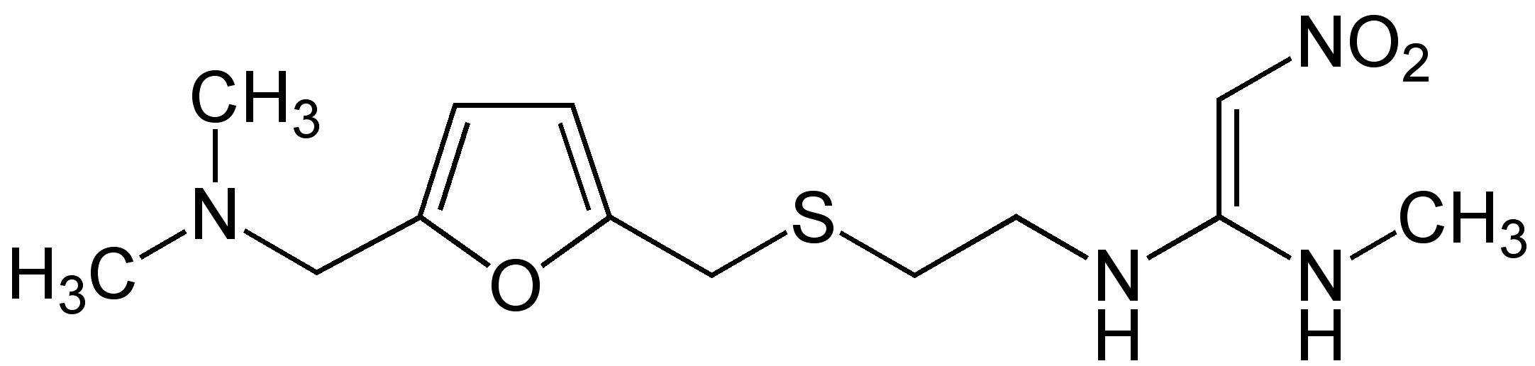 Ranitidine_Structural_Formulae